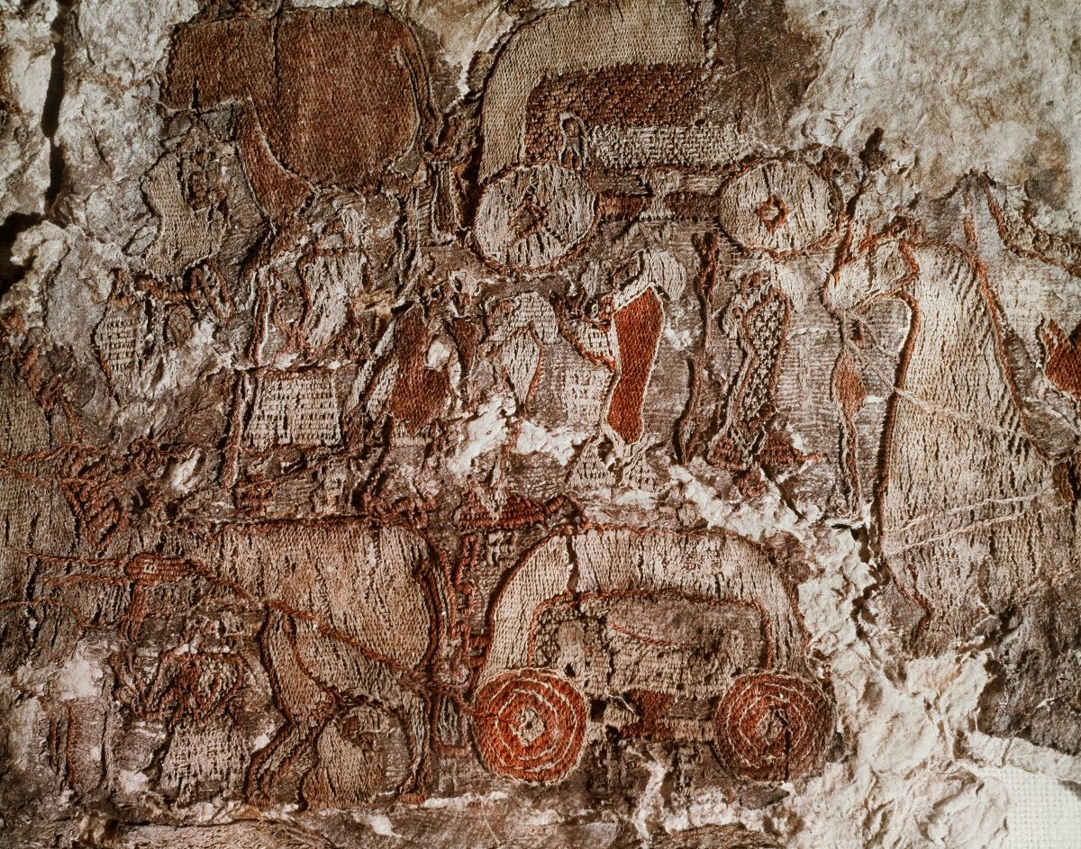 A fragment of a tapestry from the Oseberg grave in Vestfold, Norway.